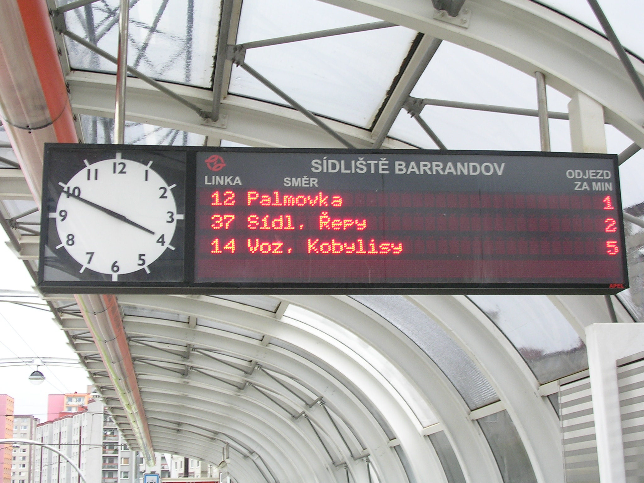 Information display at tram stop Sídliště Barrandov in Prague.